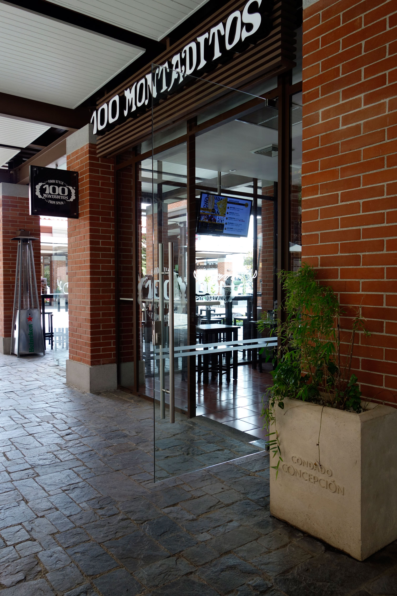 100 Montaditos restaurant in Guatemala City